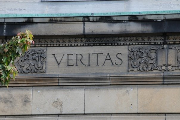 Relief detail "Truth", Grand Lodge of Quebec